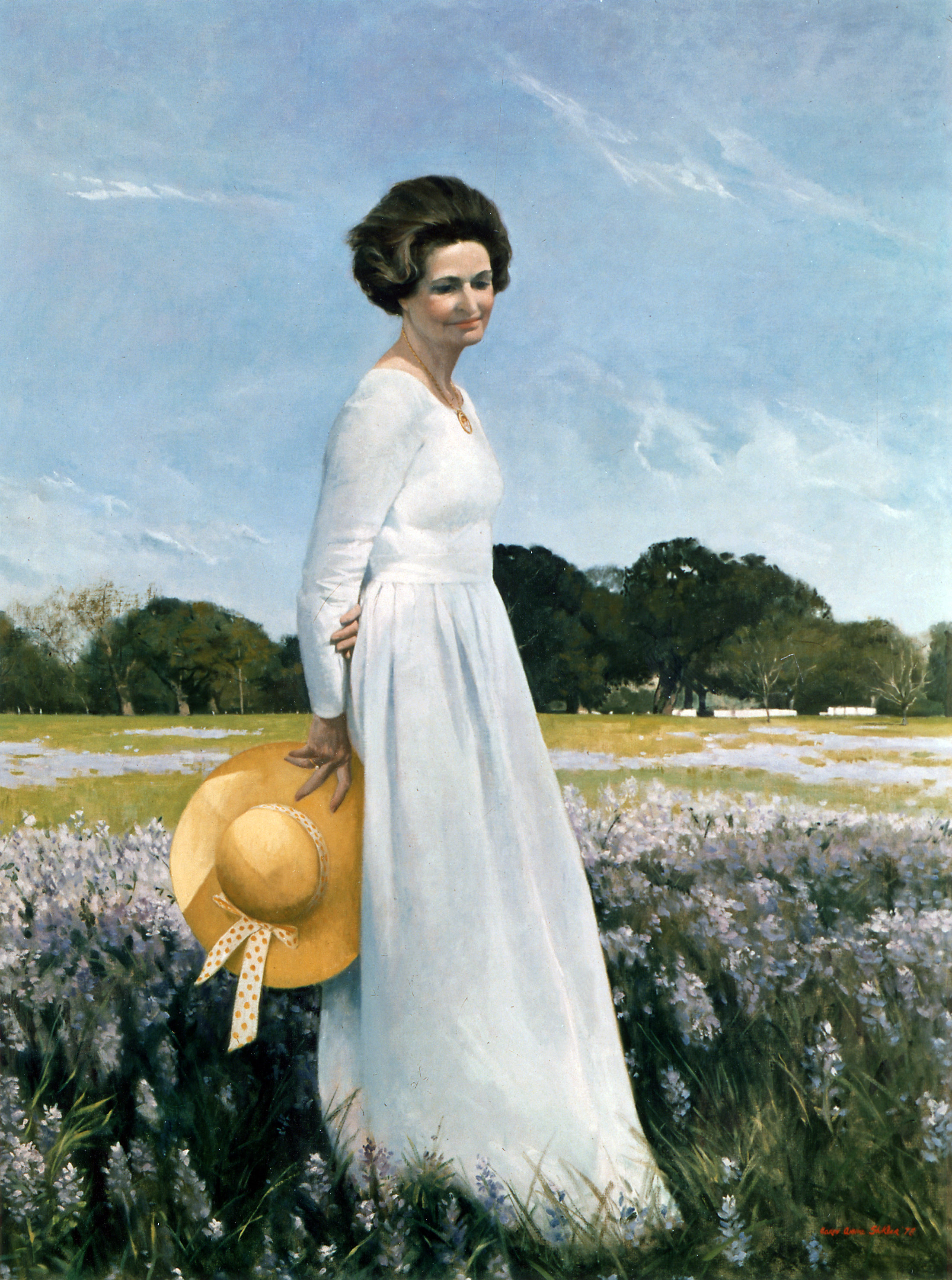 This painting depicts Lady Bird Johnson standing in a field of wildflowers with the LBJ Ranch in the background. It was painted from life on April 19th through the 29th, 1978, at the Lyndon B. Johnson Library and Museum by Aaron Shikler.